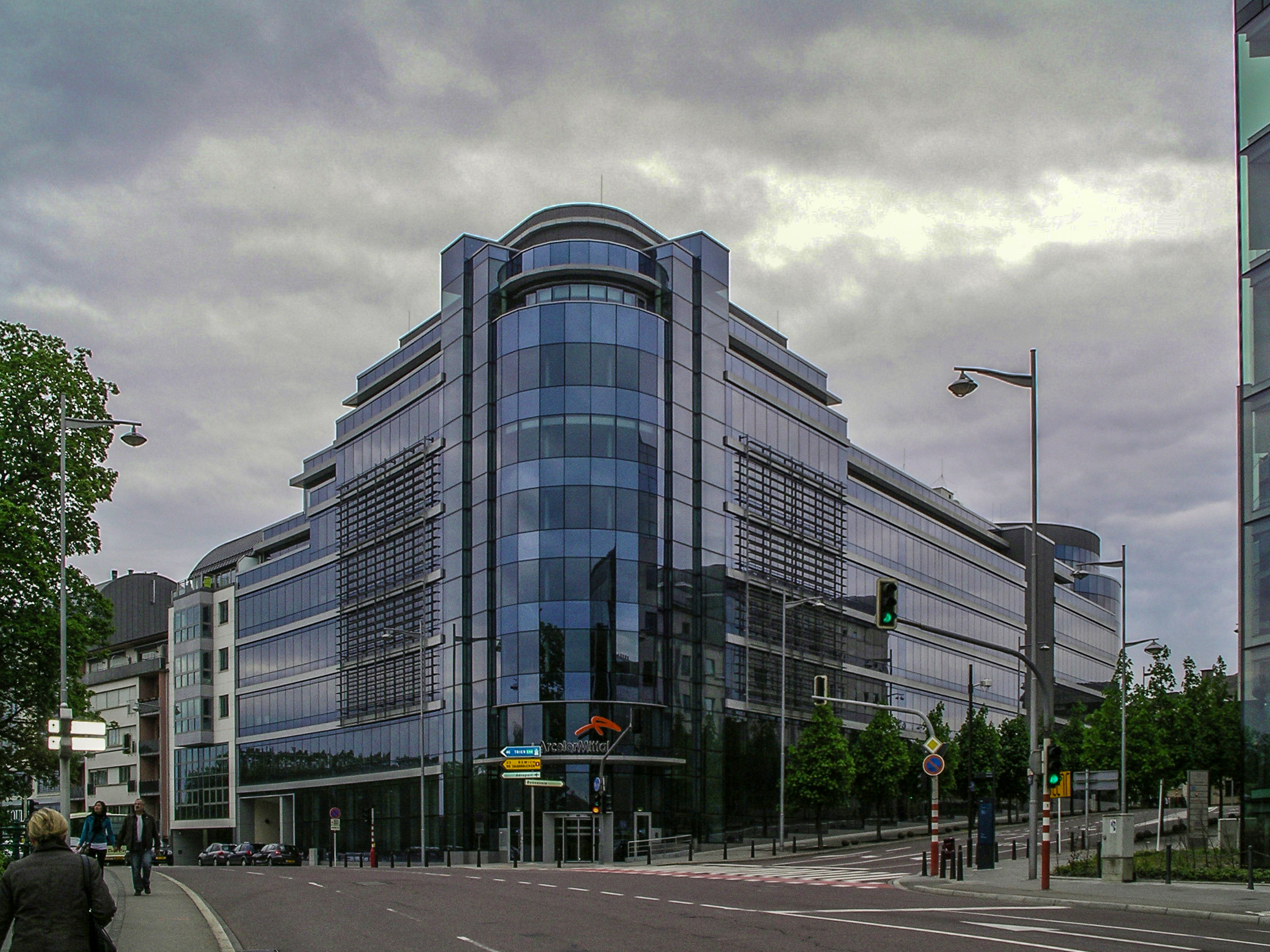 ArcelorMittal, Administration, Luxembourg